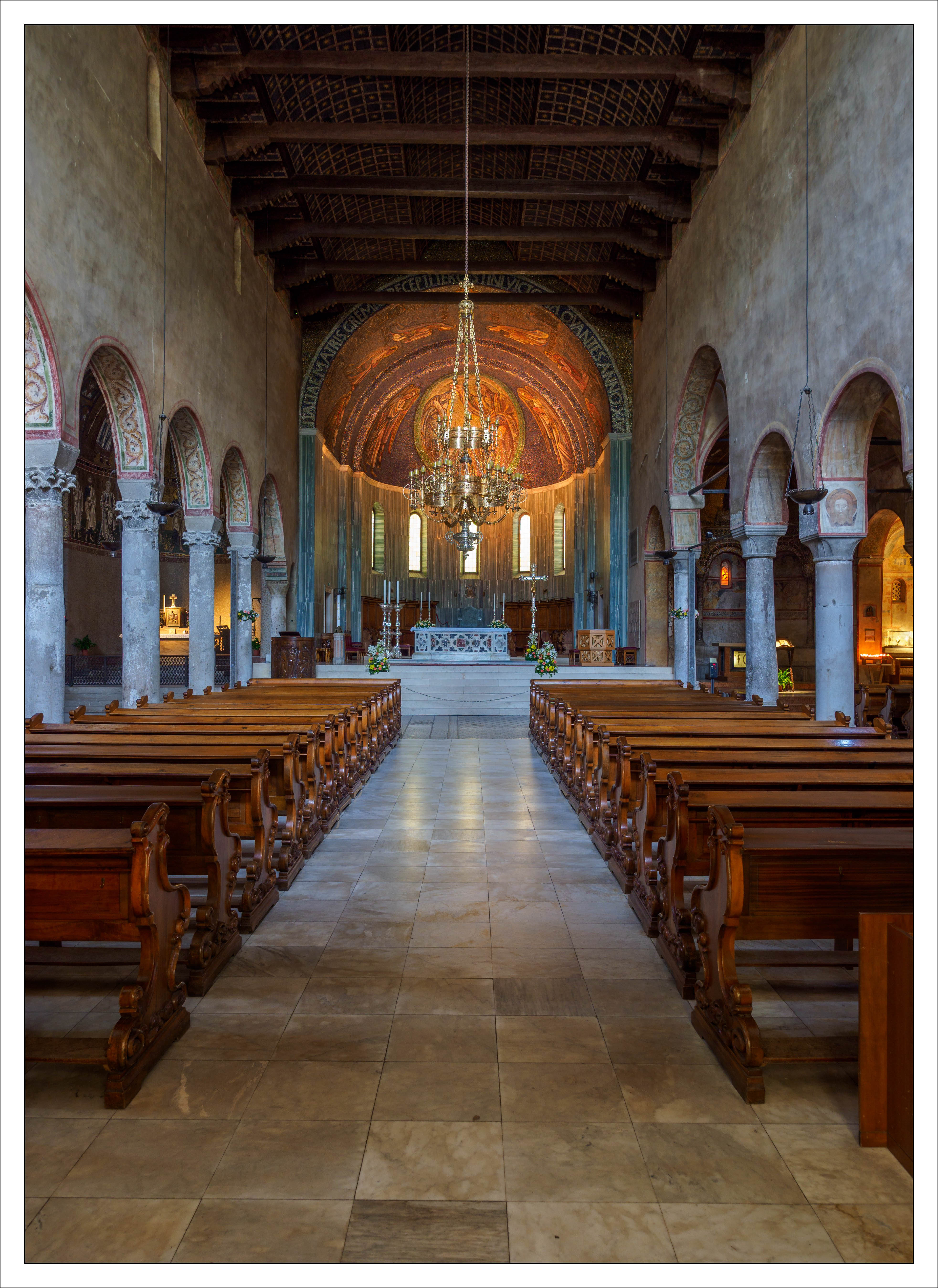 Andreas Manessinger, , Creative Commons BY-SA